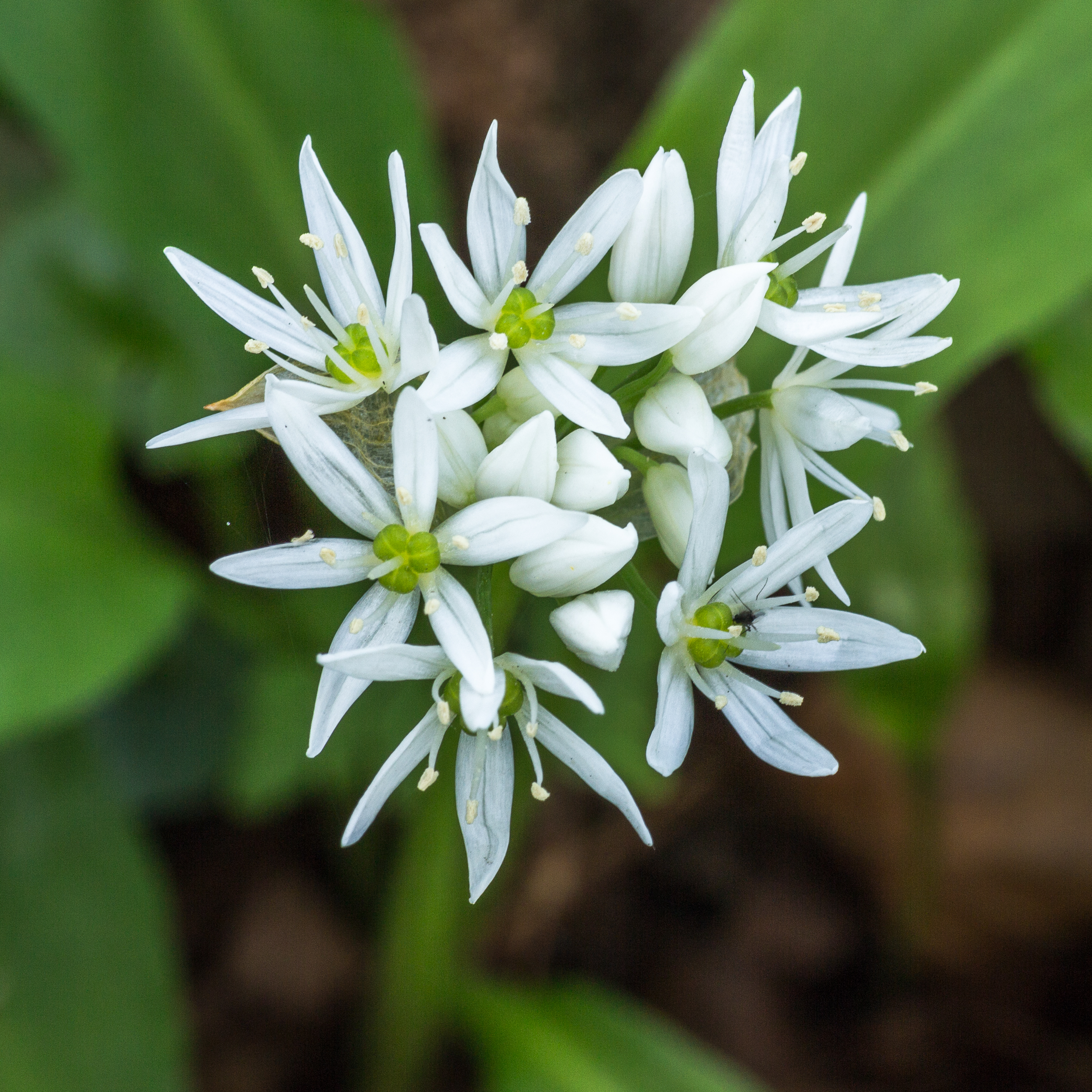 Allium ursinum. Location, Garden Tuinreservaat Jonker Valley.